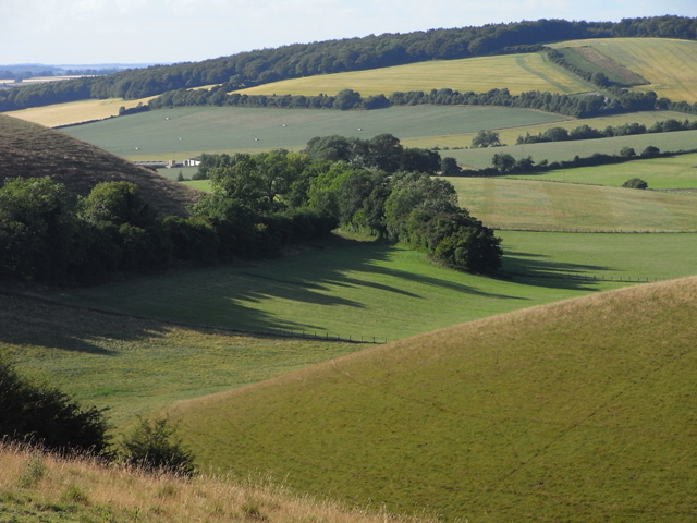 Downland above Coombe, East Meon The view from the Clanfield to West Meon road which passes along the crest of the downs. Extending from the right of picture is the spur of Long Down. Ahead is Henwood Down.